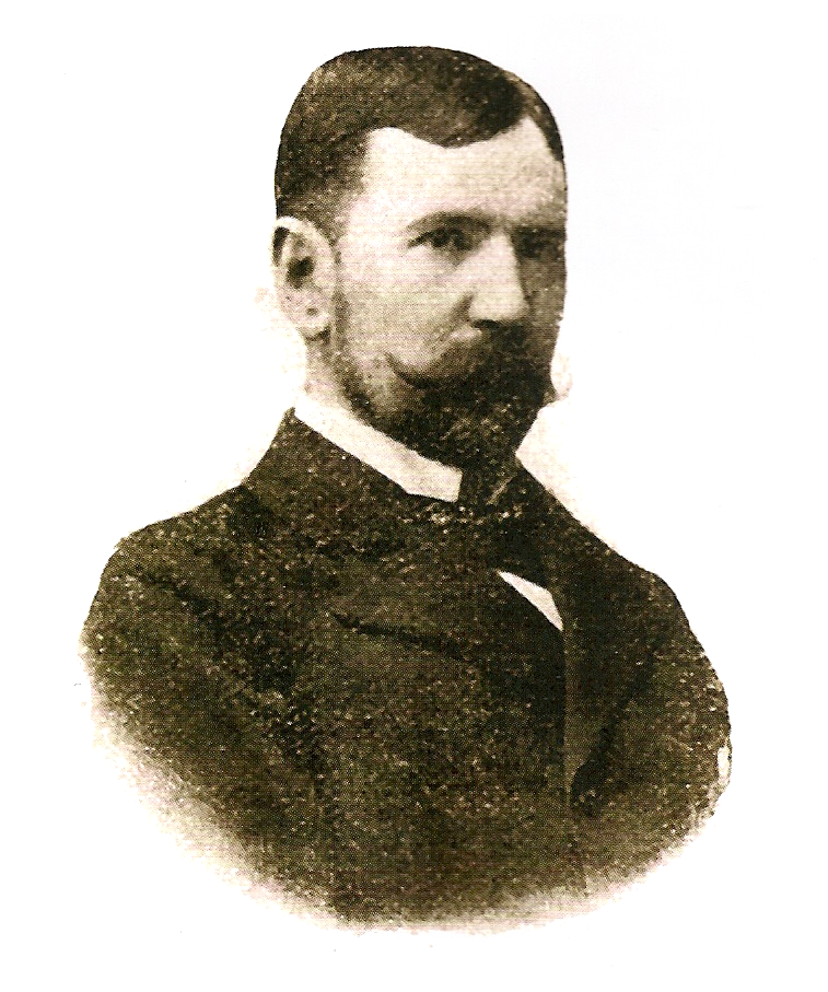 Ernő Emil Moravcsik